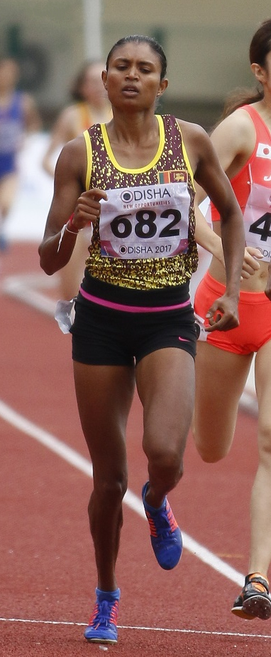 Tintu Lukka. picture taken at the 2017 Asian Athletics Championships in July 2017 in Bhubaneshwar, Nimali Waliwarsha Konda Liy is 682, FUMIKA OMORI is 416